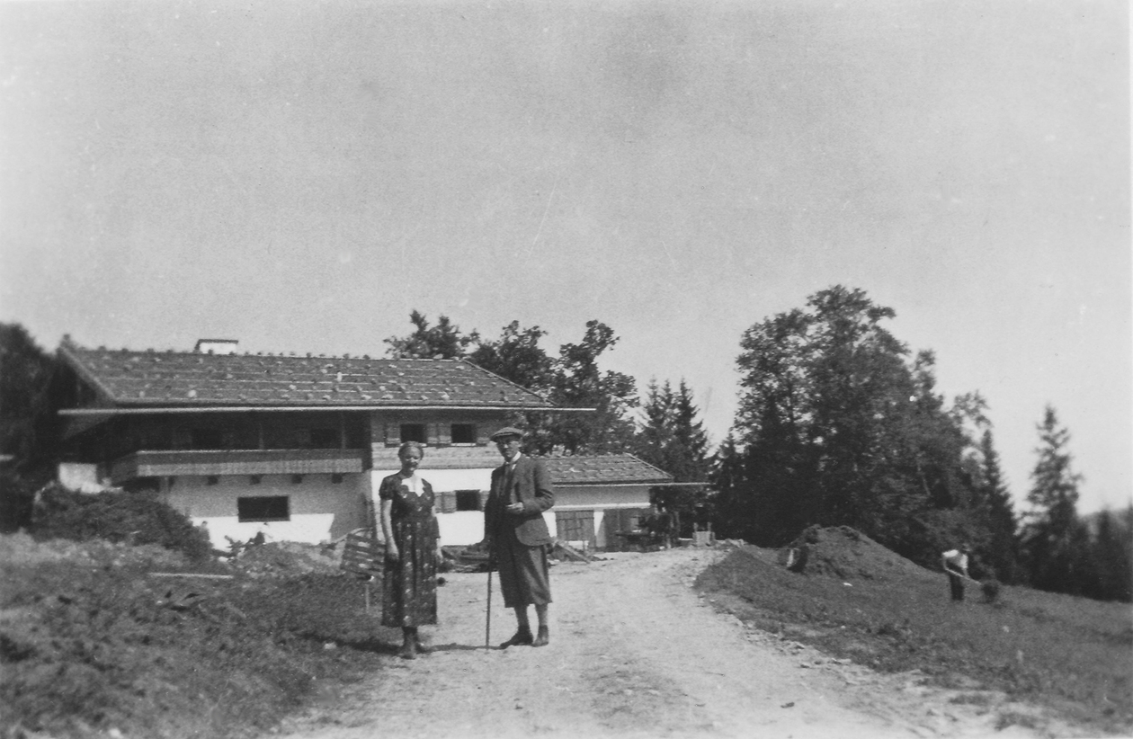 Göring House, Obersalzberg, under construction